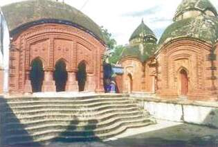 Siddheswari ?